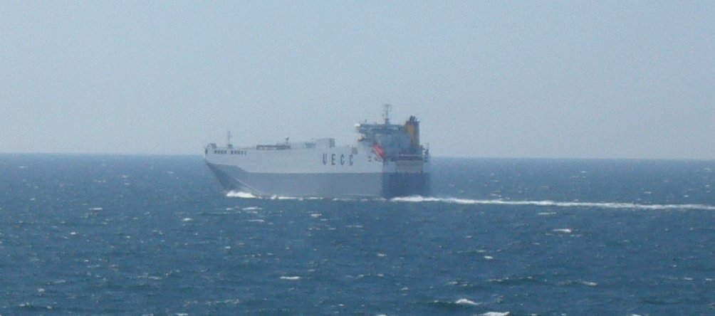 M/S Autostar or M/S Autosky in the Baltic Sea